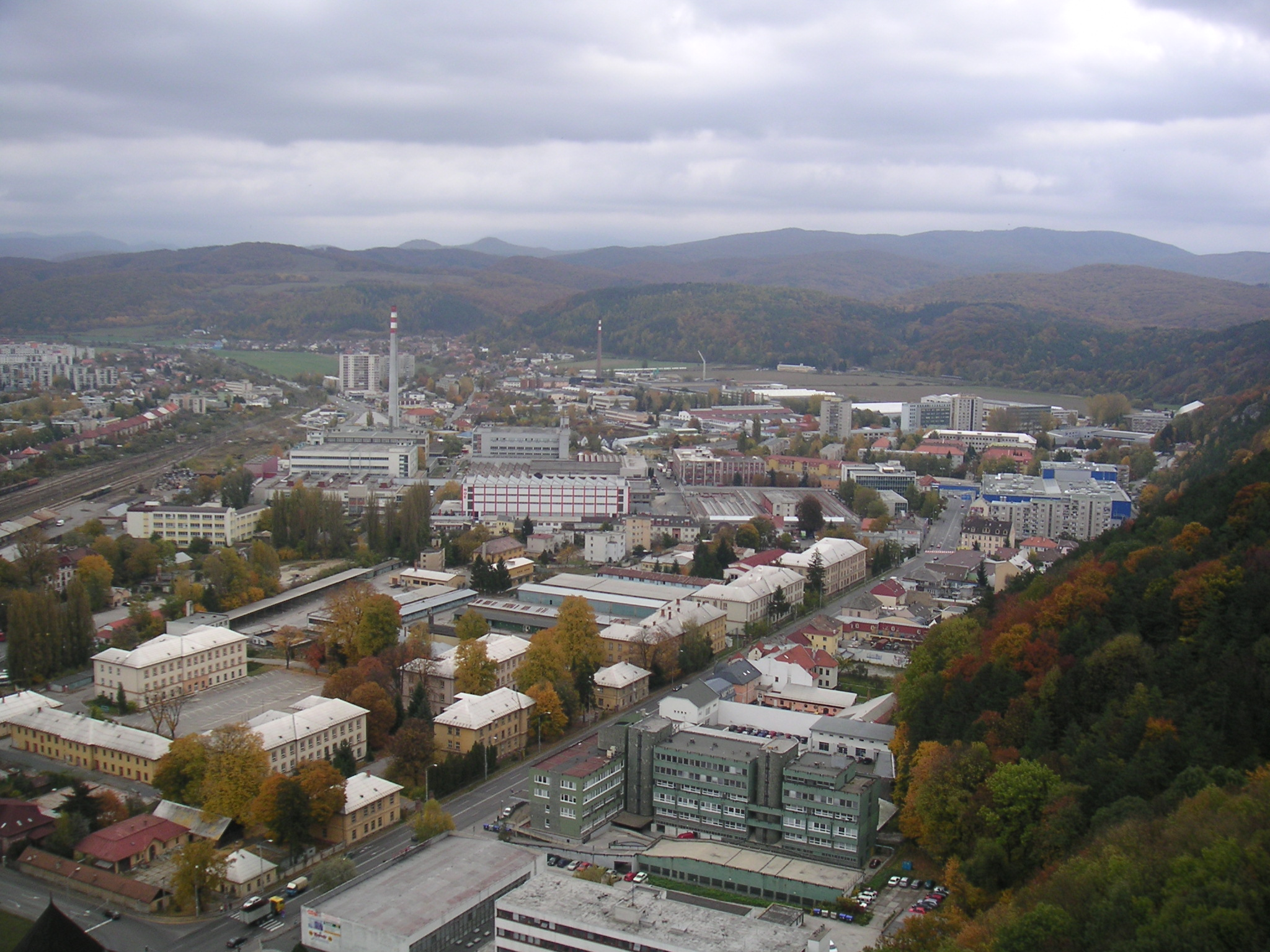 Trenčín (eastern part), from the Trenčín Castle